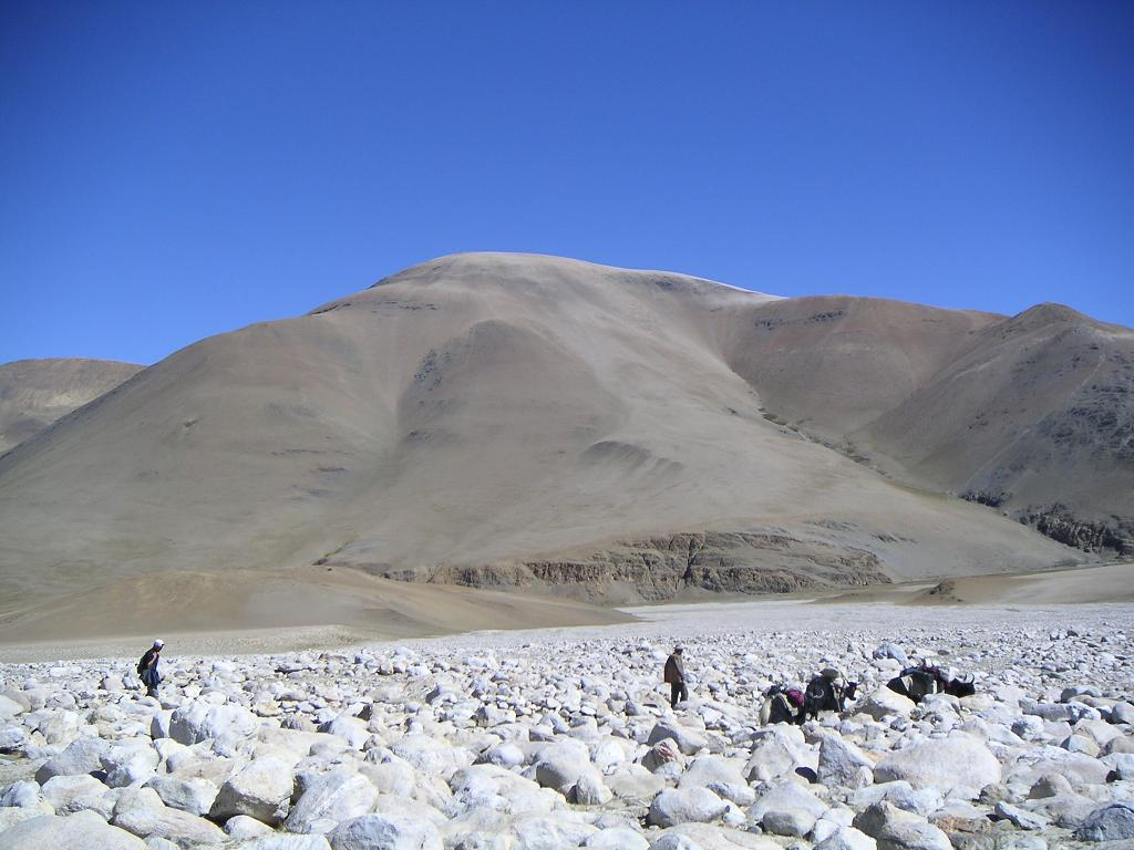 Rocky land in Tibet, approximately 40 km southeast from Tingri Shekar. Likely a result of eduction.